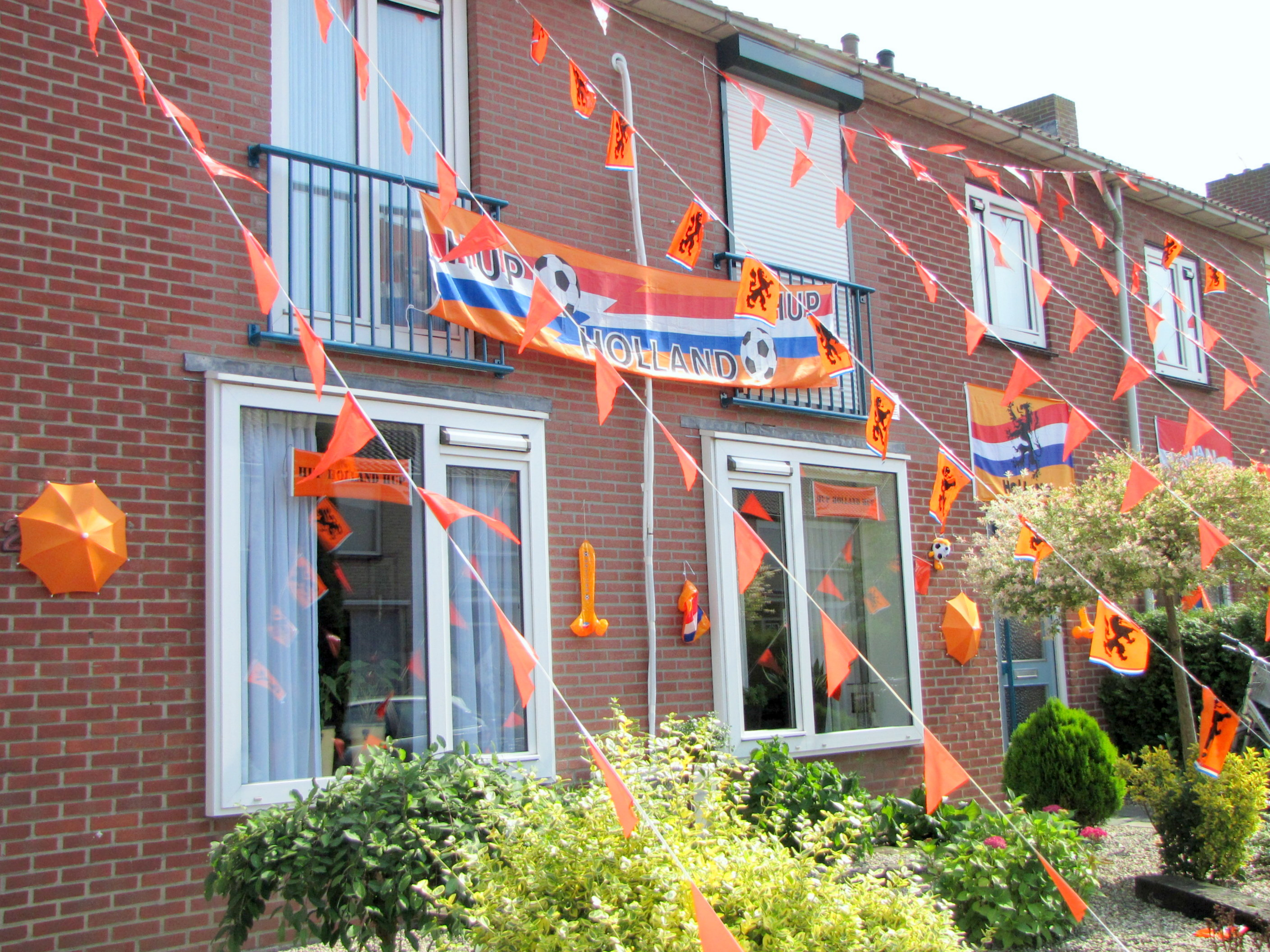 Silvolde, The Netherlands: House in Orange during World Cup Soccer 2010